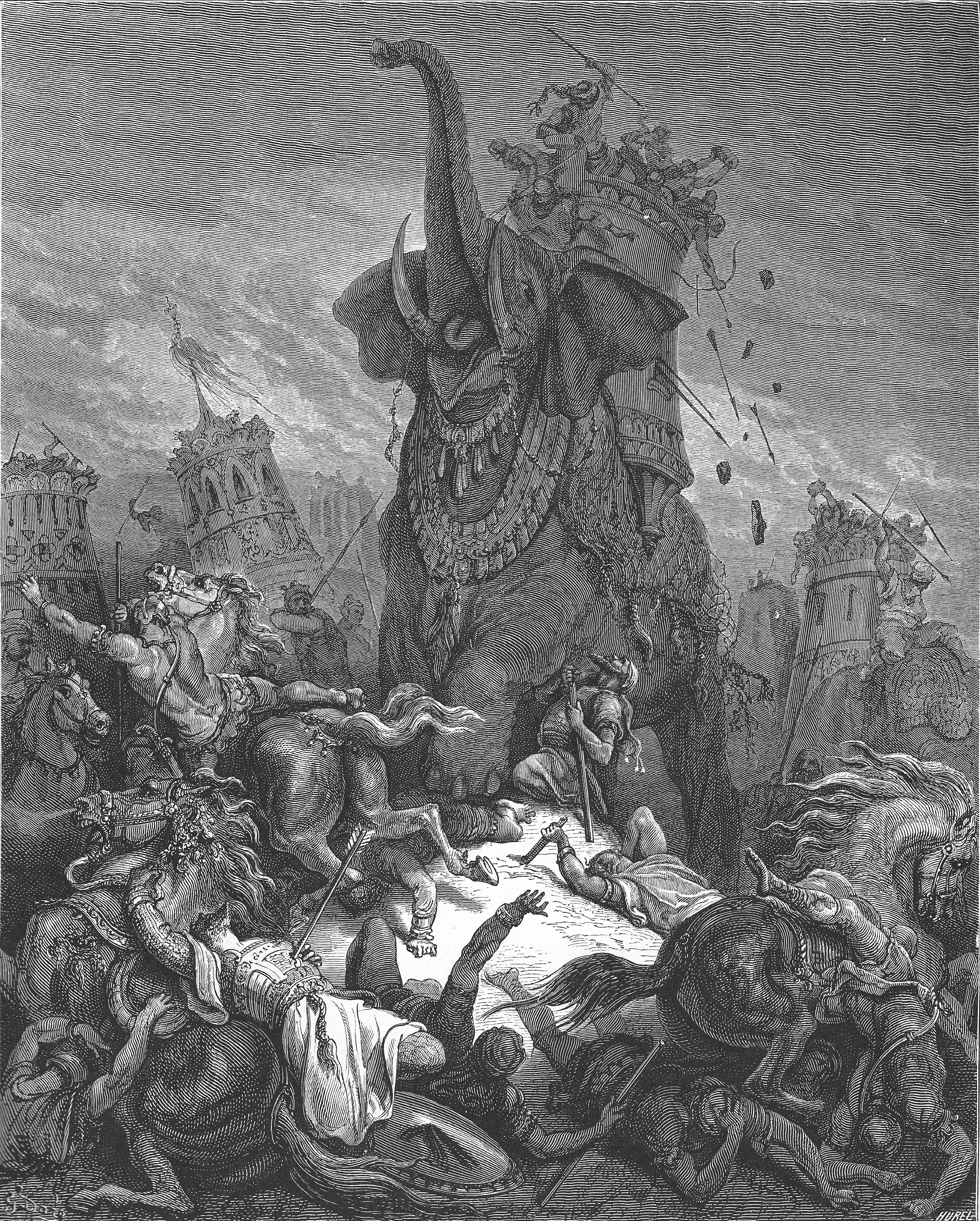 The Death of Eleazar (1 Macc. 6:33-46)